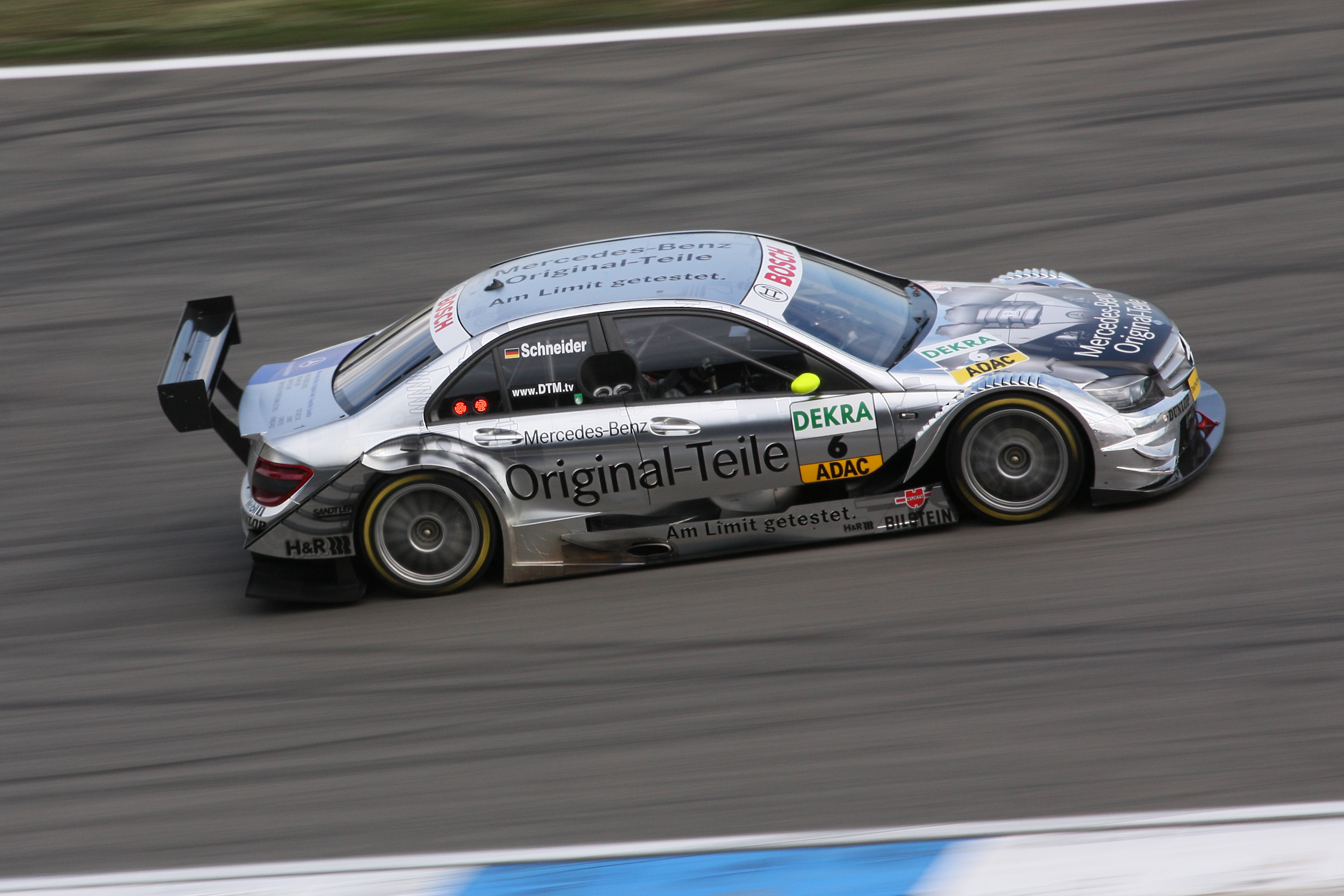 DTM car Mercedes-Benz Season 2008 (C-Class, W204), Bernd Schneider (driver).